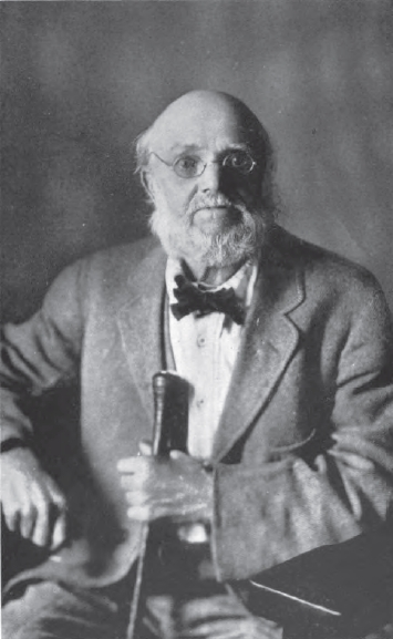 Samuel C. Hughes (1829-08-23 – 1917-06-20), American businessman, politician, and early Arizona settler